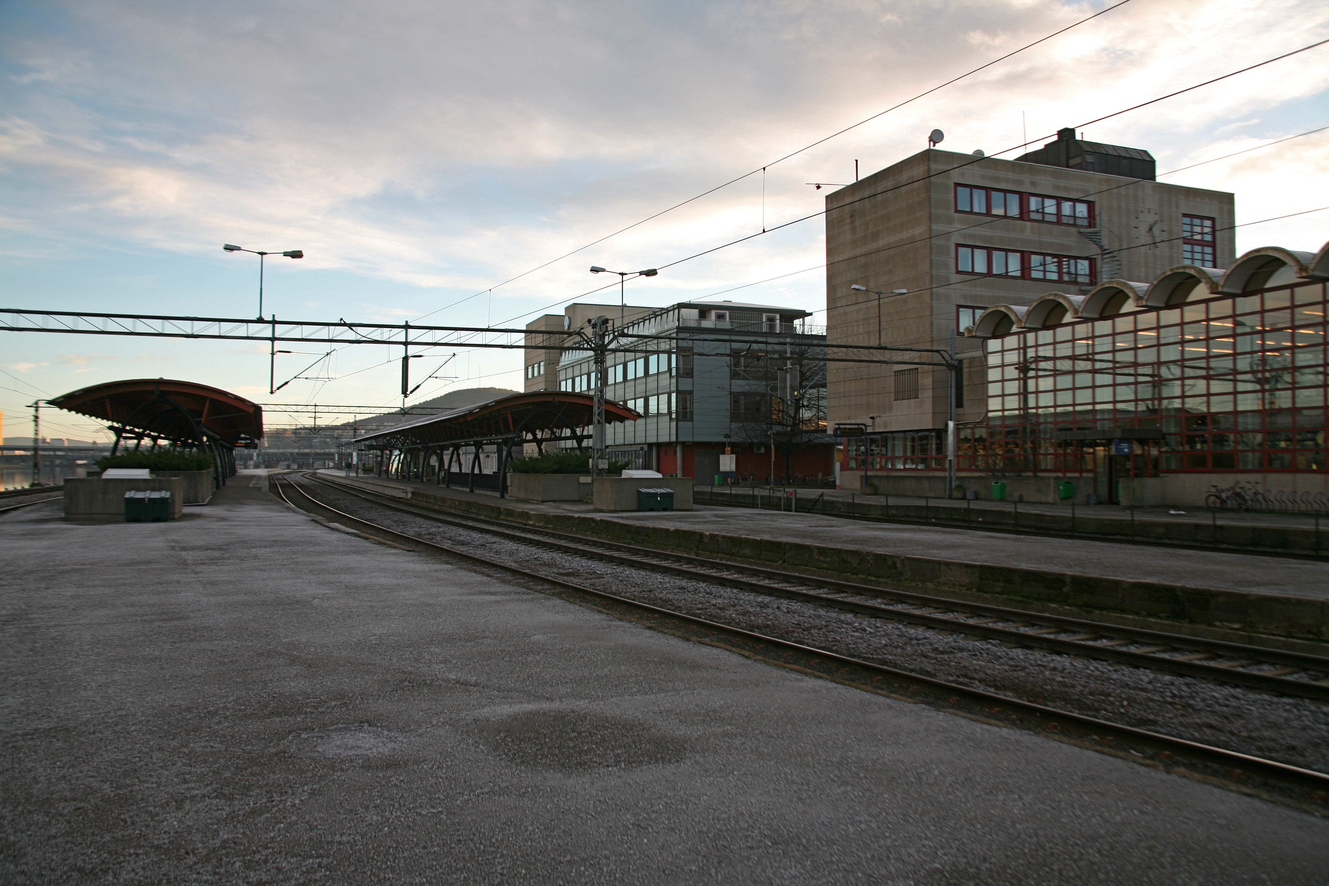 Picture of Drammen Railway Station (Buskerud - Norway)